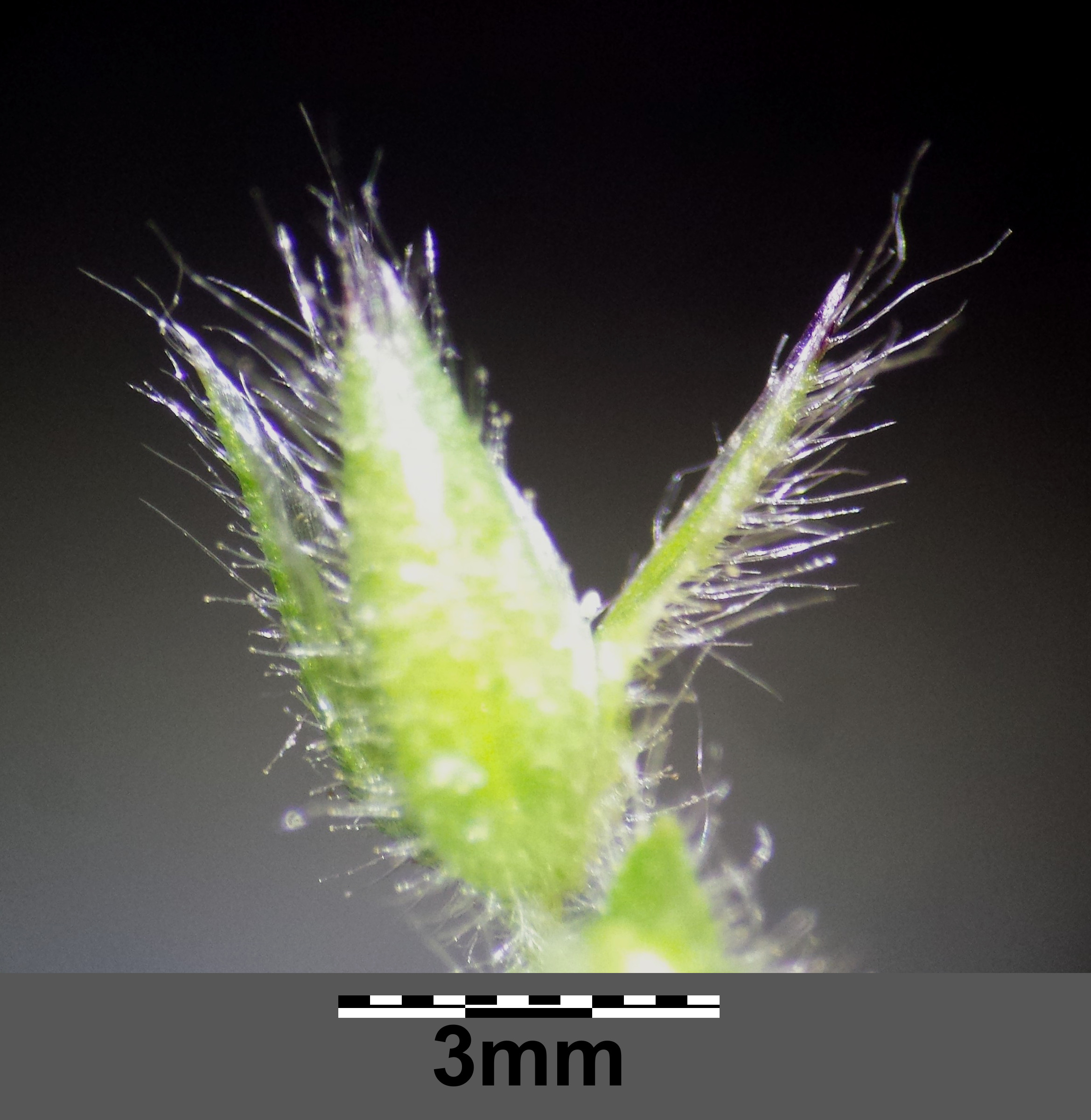 Sepals with hairs Taxonym: Cerastium glomeratum ss Fischer et al. EfÖLS 2008 ISBN 978-3-85474-187-9 Location: Lange Lüsse near Marchegg, district Gänserndorf, Lower Austria - ca. 140 m a.s.l. Habitat: wayside